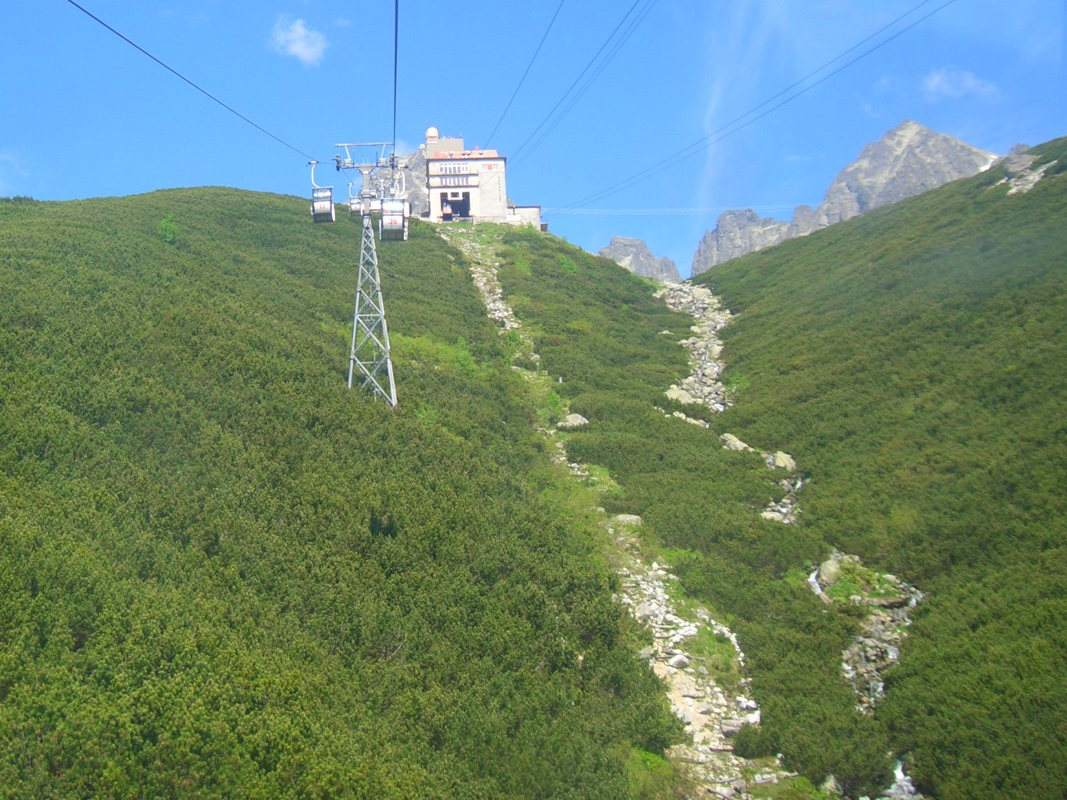 Skalnatá dolina from cableway